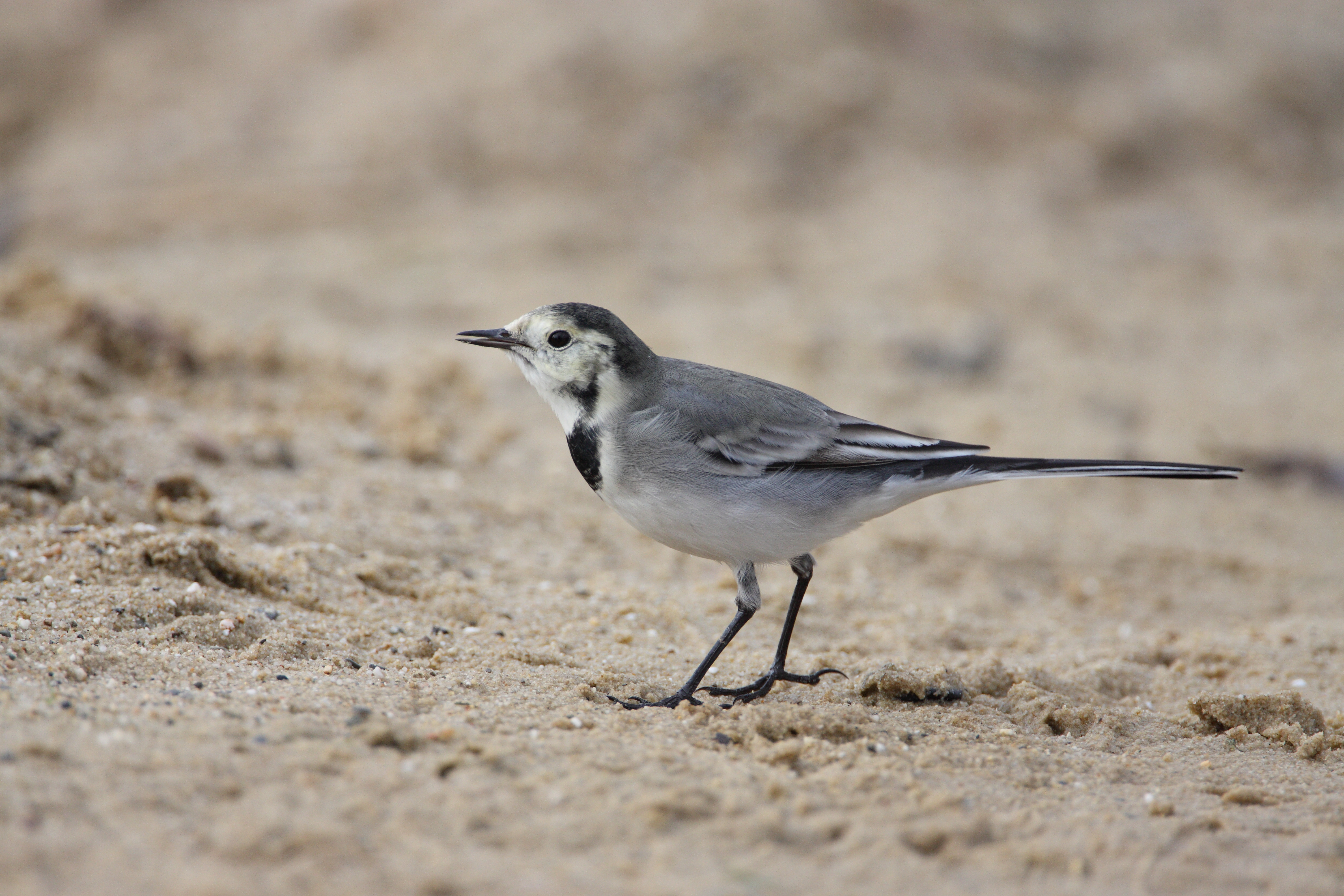 White Wagtail